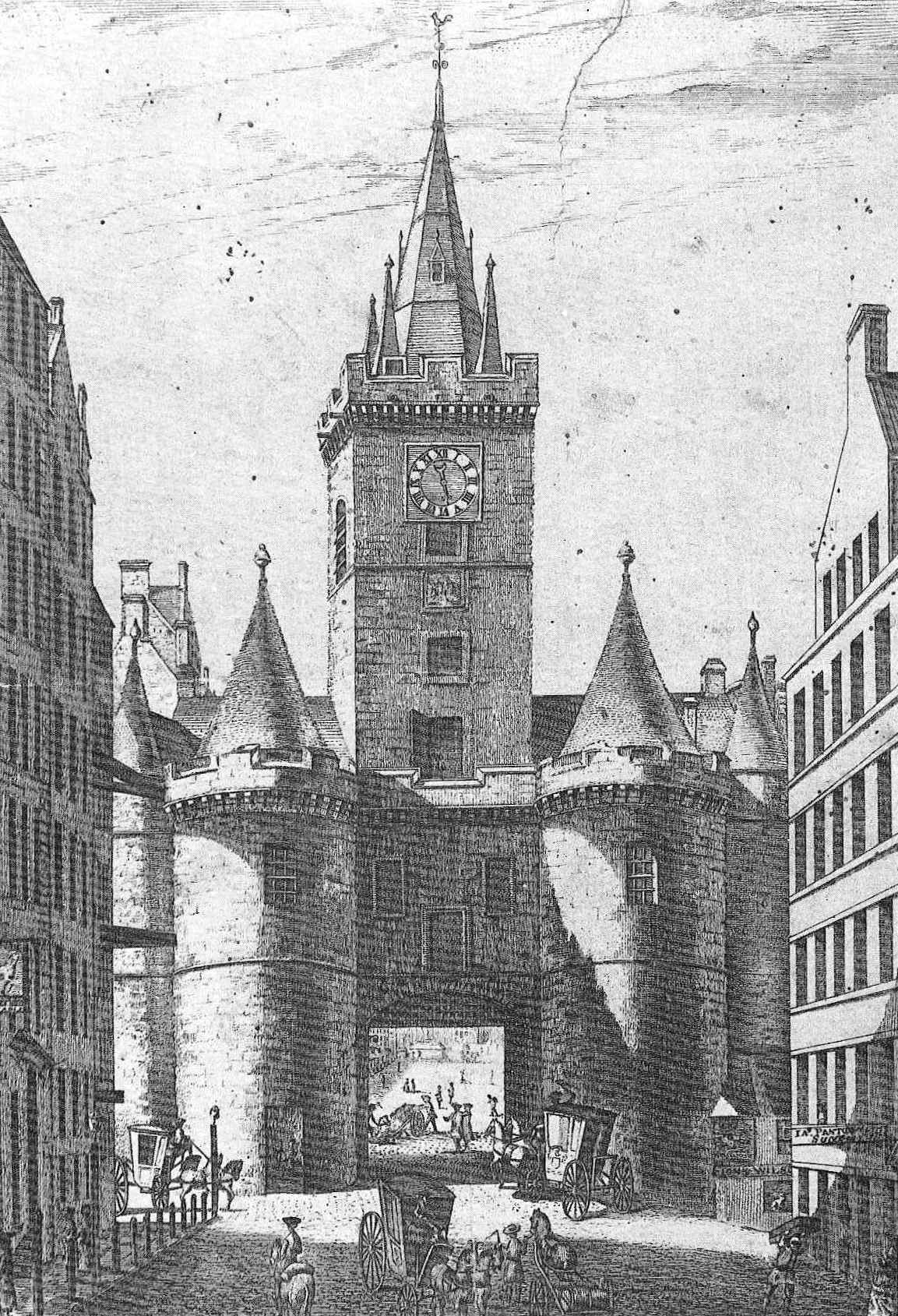 The Netherbow, the main gate into Edinburgh, prior to its demolition in 1764. Seen from Canongate to the east (outside).